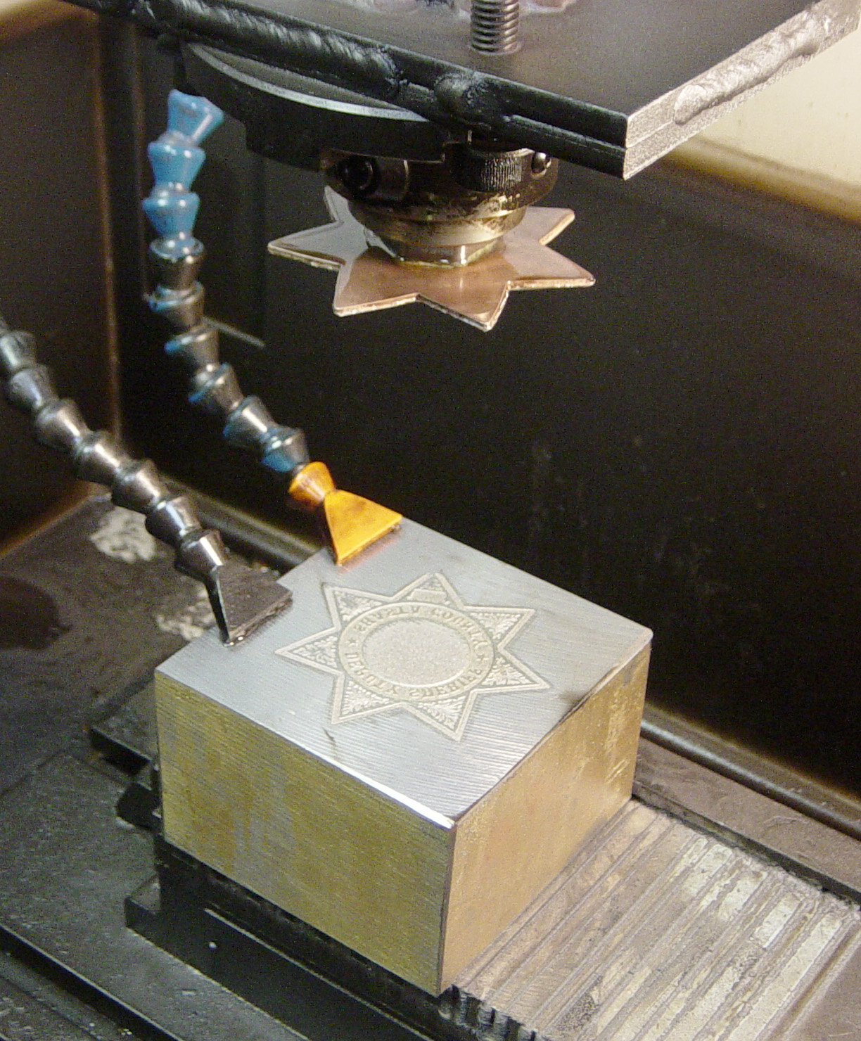 Making a coinaage die using EDM process. Flushing oil has been drained. Image by User:Leonard G.